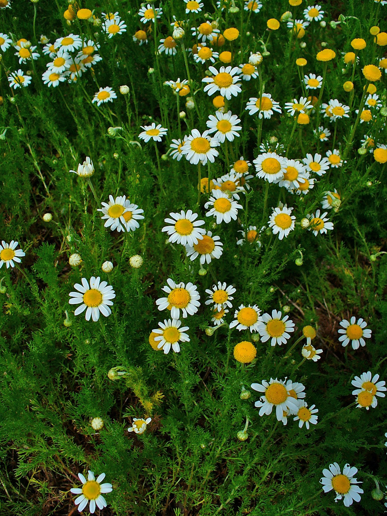 Chamaemelum nobile, Asteraceae, Roman Camomile, Chamomile, Garden Camomile, Ground Apple, Low Chamomile, English Chamomile, habitus; Botanical Garden KIT, Karlsruhe, Germany. The fresh aerial parts of the blooming plant are used in homeopathy as remedy: Chamomilla romana (Cham-r.)